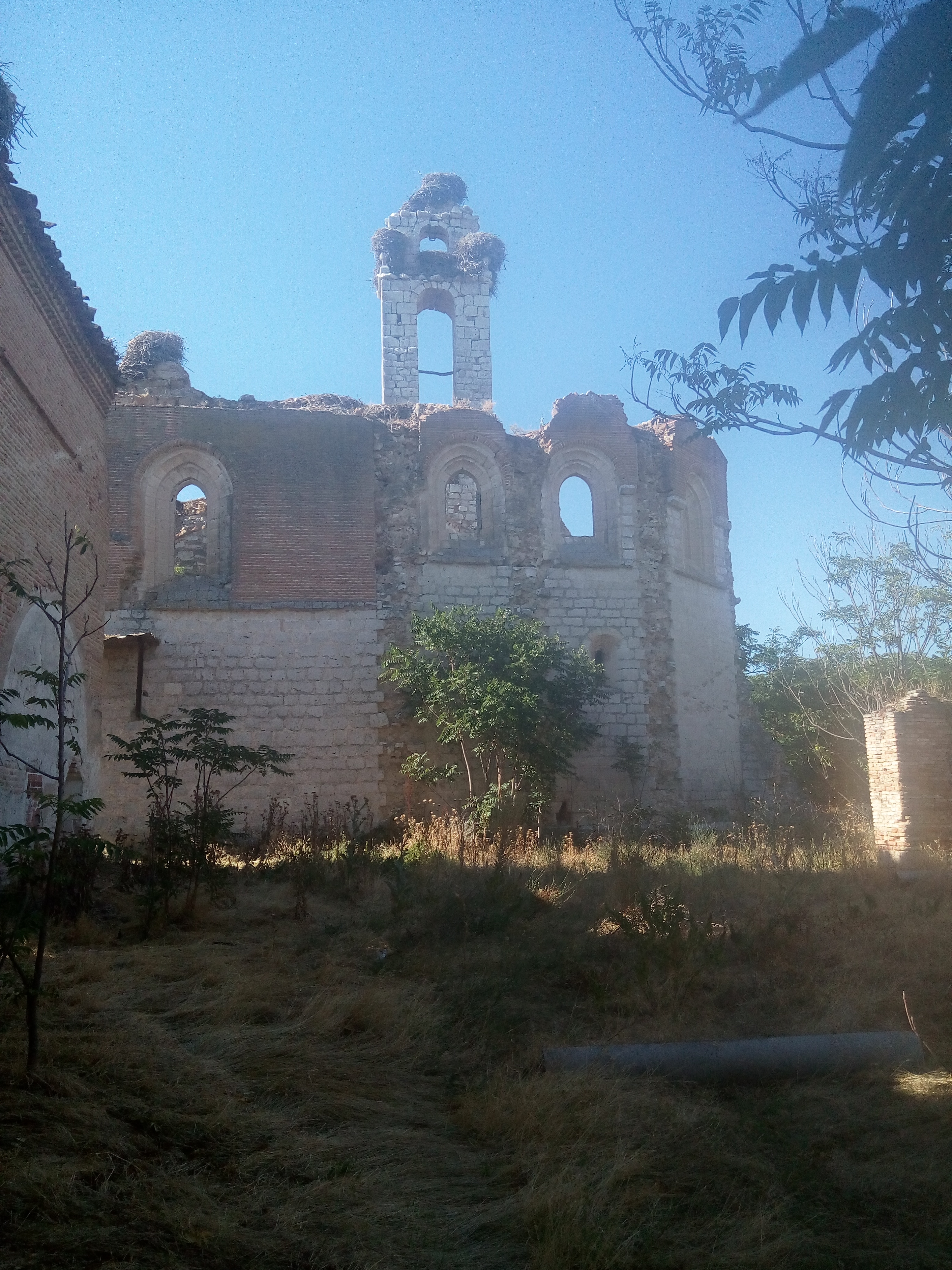 Ruinas del monasterio de Aniago en el término de Villanueva de Duero, Valladolid, España. Exterior de la capilla de las reliquias adosada al ábside.